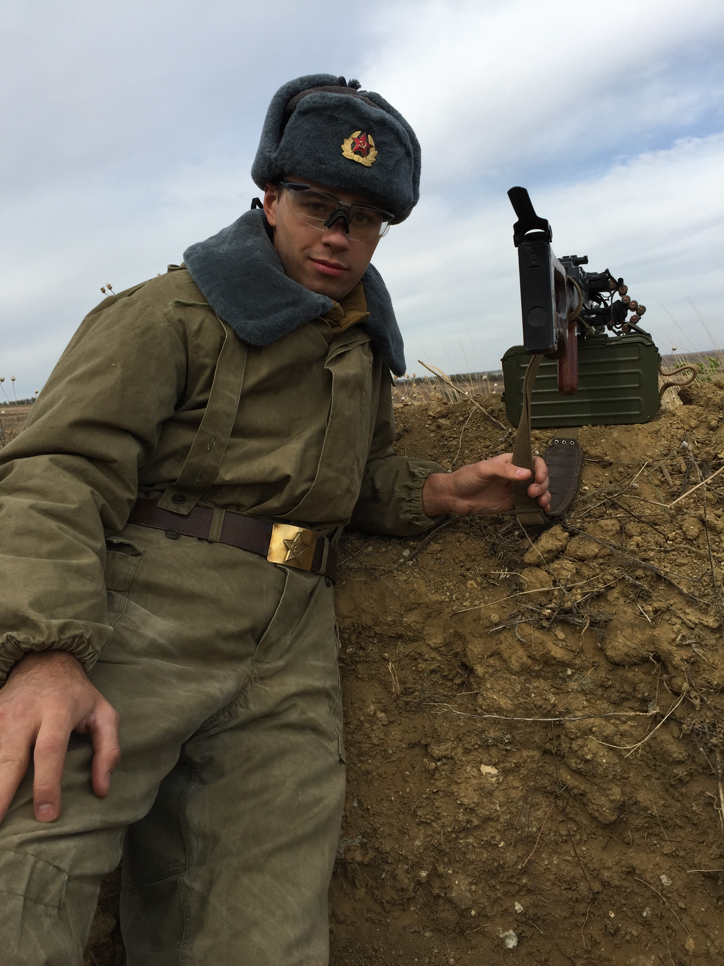 Reenactor wearing Gorka-1